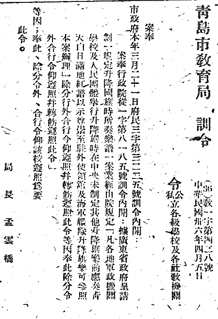 Tsingtao Government bulletin about national anthem